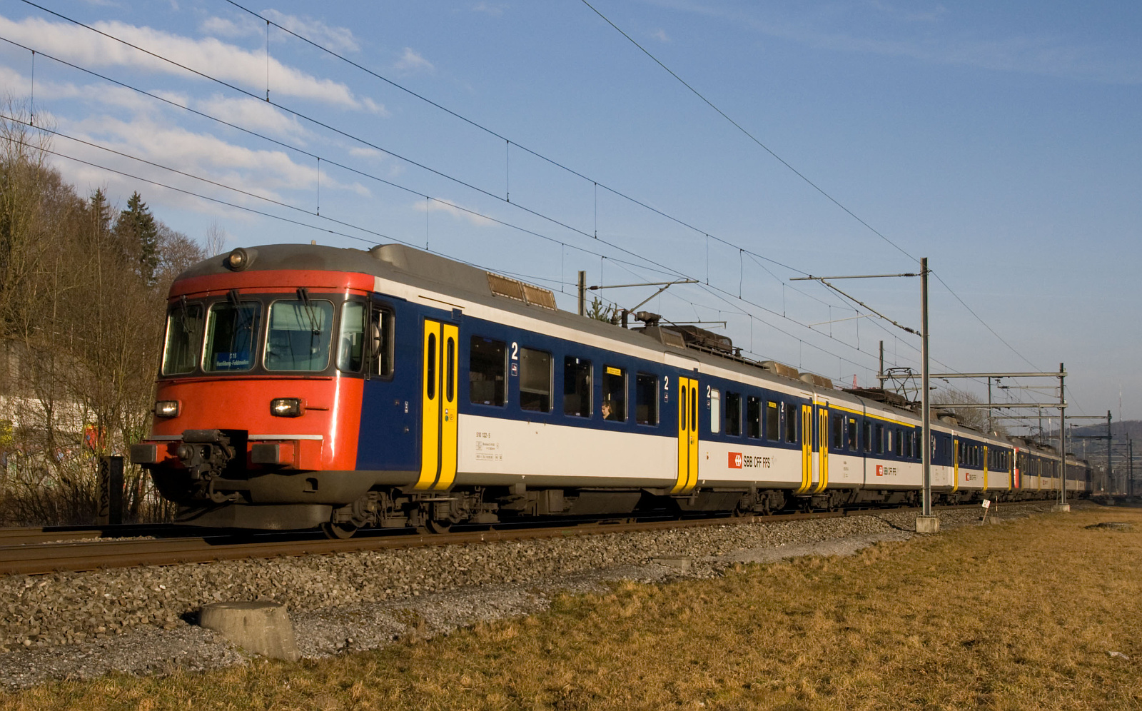 Two RABDe 12/12 "Mirage" on the S16 service heading towards Zurich have just left Winterthur